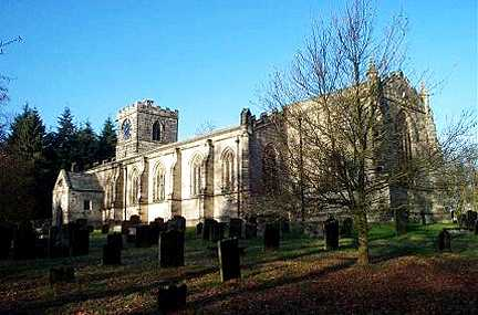 Harewood Church, 15th century grade I listed disused church in grounds of Harewood House, Leeds, West Yorkshire, England.